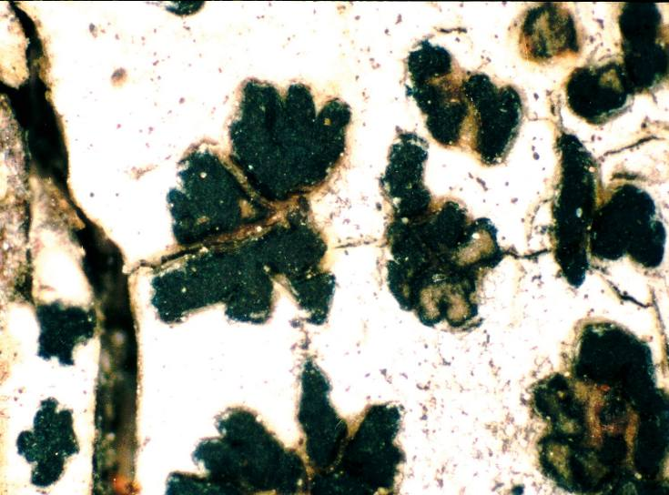 Arthonia radiata (Pers.) Ach., 1808 (photograph of a herbarium specimen taken through a dissecting microscope (x40) showing star-like clusters of ascomata) Growing on the bark of Red Oak in an open woods, 2.2 miles W of U. M. Biological Station on C-64, Cheboygan County, Michigan, USA; collected and identified by Richard E. Riefner (No. 81-209, 22 Jun 1981); specimen is now in the Lichen Herbarium of the New York Botanical Garden.